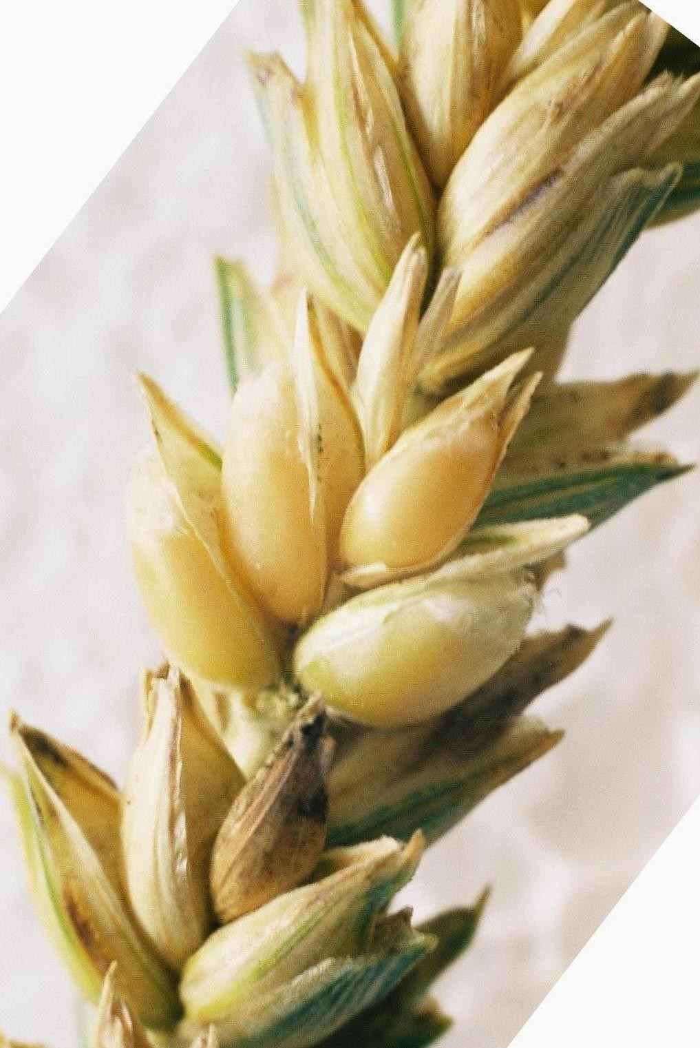 Zdjęcie przedstawia: fragment kłosa pszenicy na którym odsłonięto cztery ziarniaki w kłosku przez usunięcie plew - jest to faza dojrzewania ziarniaków woskowa i pełna. via Google Translate: "The picture shows: a fragment of an ear of wheat which was unveiled four grains in spikelet by removing the chaff - a maturing phase and full grain waxy."